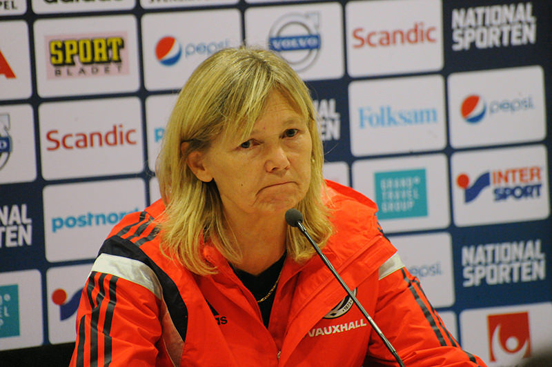 Anna Signeul as a coach of Scottish women's national football team